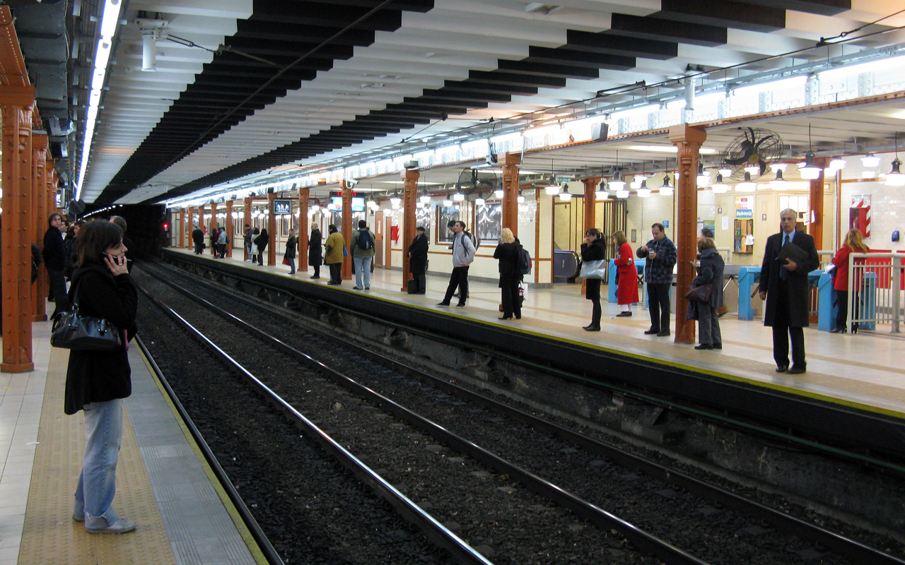 ... - 'Peru' Station - 'A' Line - Buenos Aires Subway